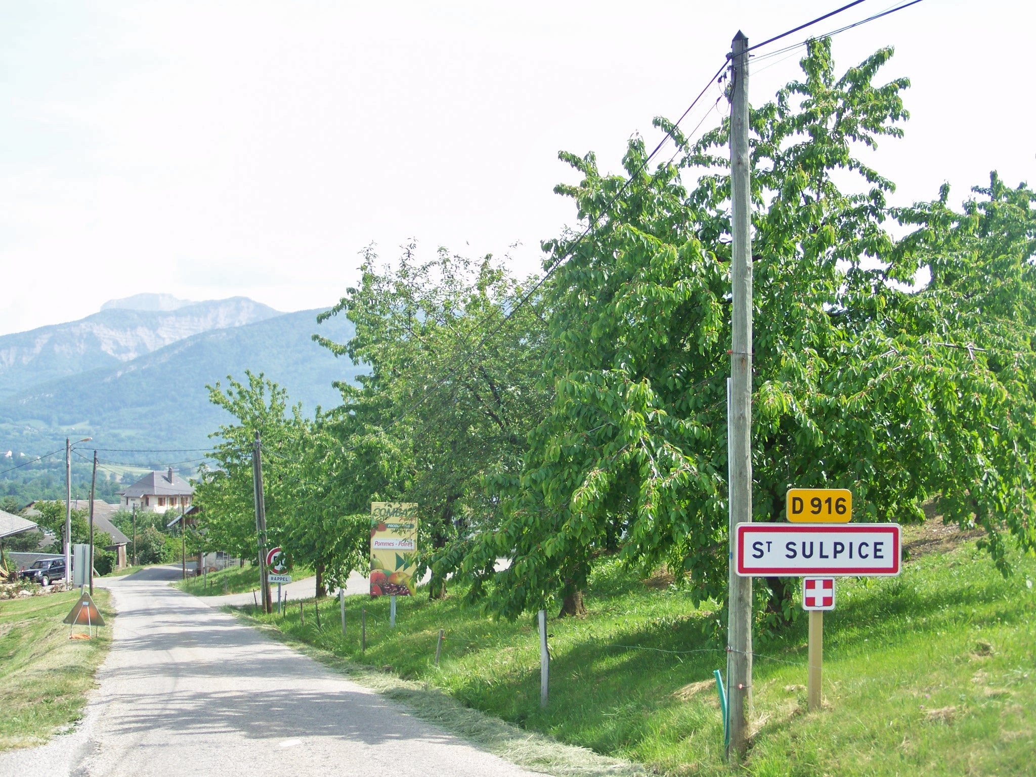 Sign welcoming visitors to commune of St-Sulpice on the heights of Chambéry in Savoie, France.